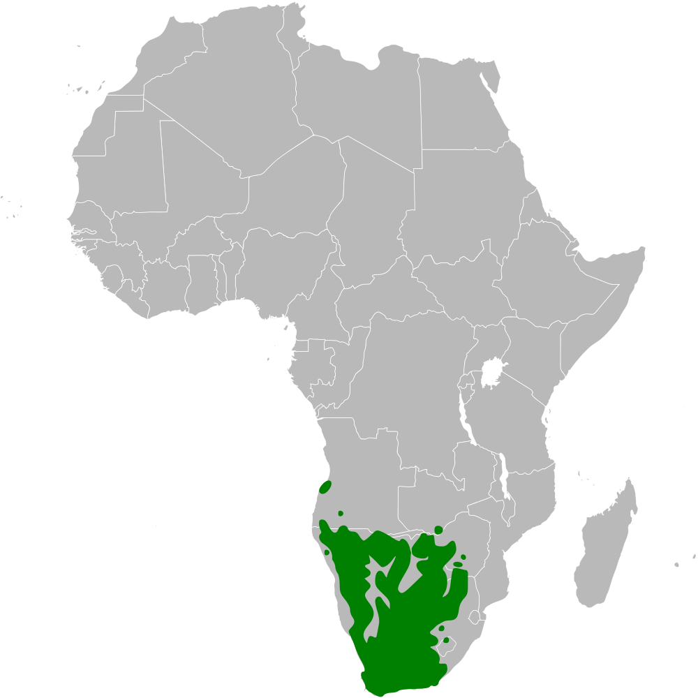 Anthoscopus minutus distribution map; using BlankMap-Africa.svg, based on